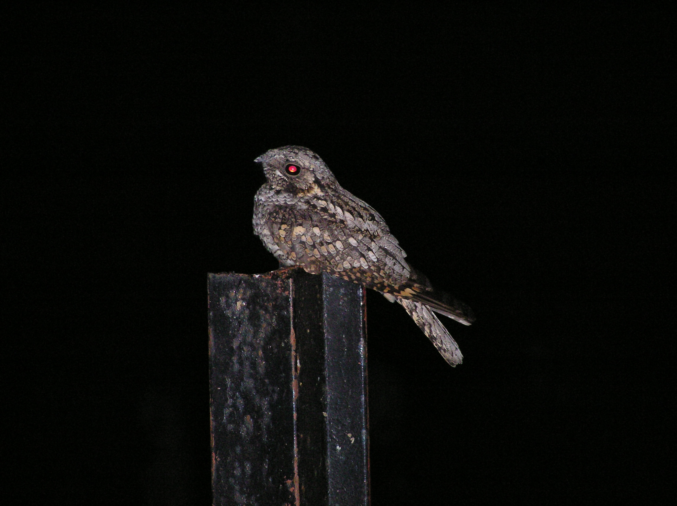 A Jungle nightjar in a shade coffee plantation in Chikmagalur